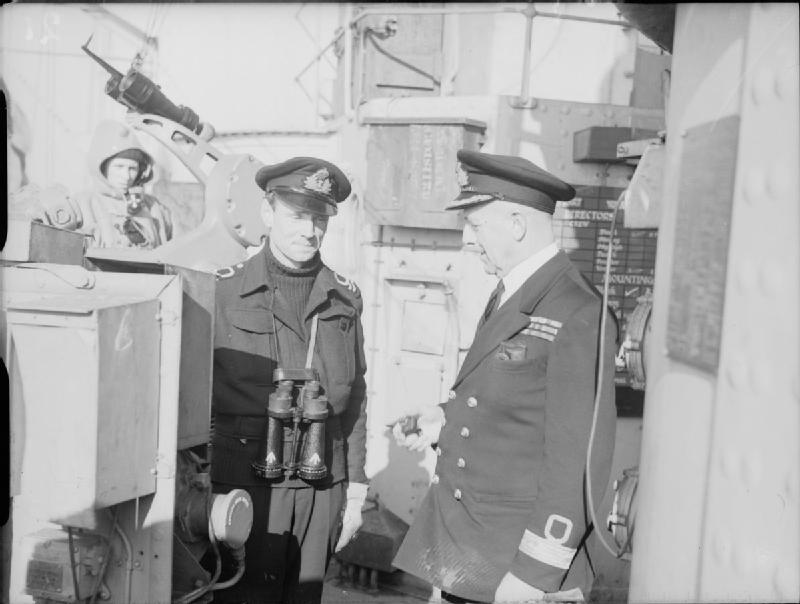 The Royal Navy during the Second World War On board the battleship HMS HOWE, Commodore Earl Howe, RNVR, a direct descendant of the famous Admiral after whom the ship is named, is stood with his son Lieutenant Viscount Curzon RNVR, who is one of the ships officers.